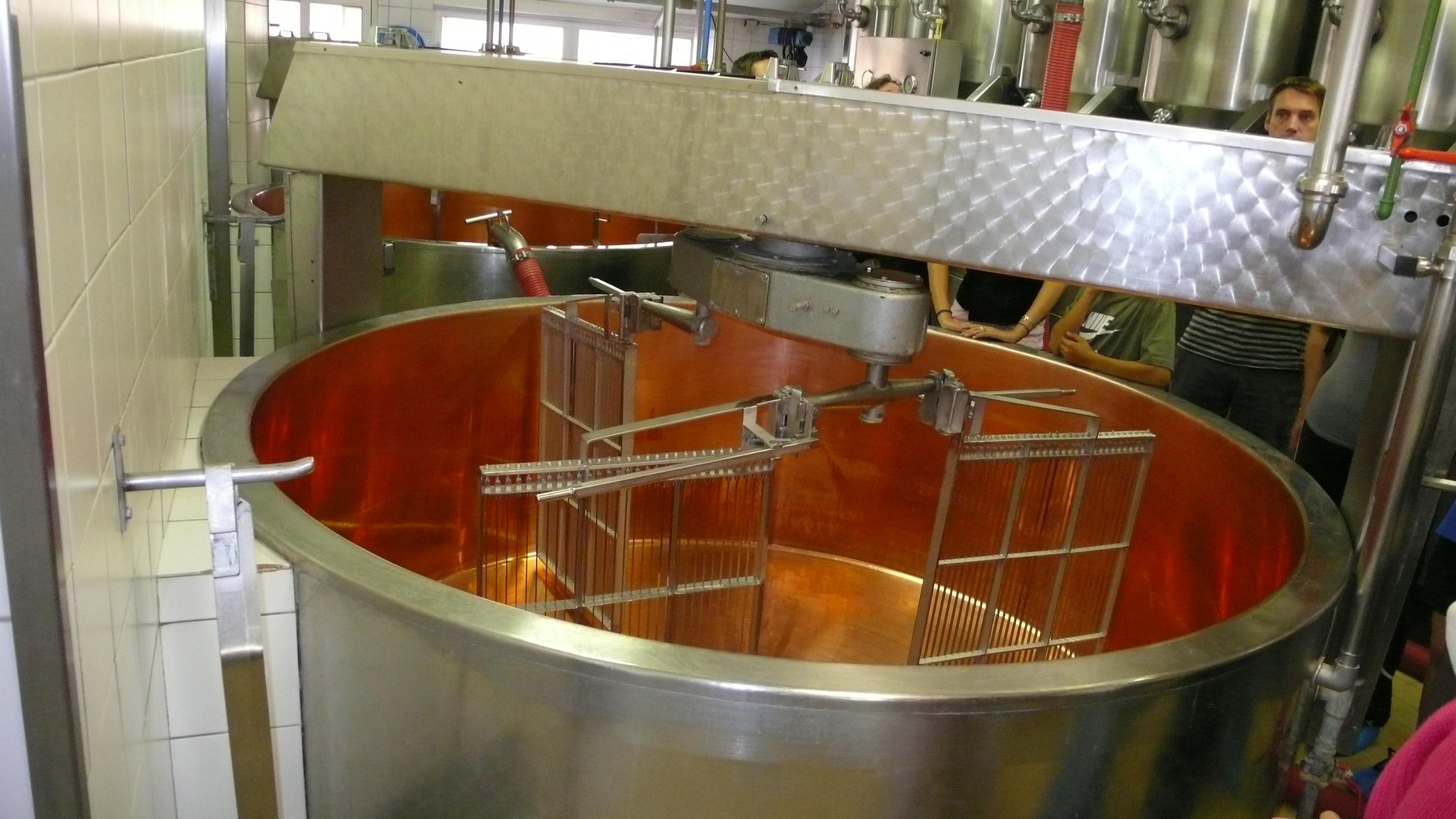 Inside the dairy of Fontain .